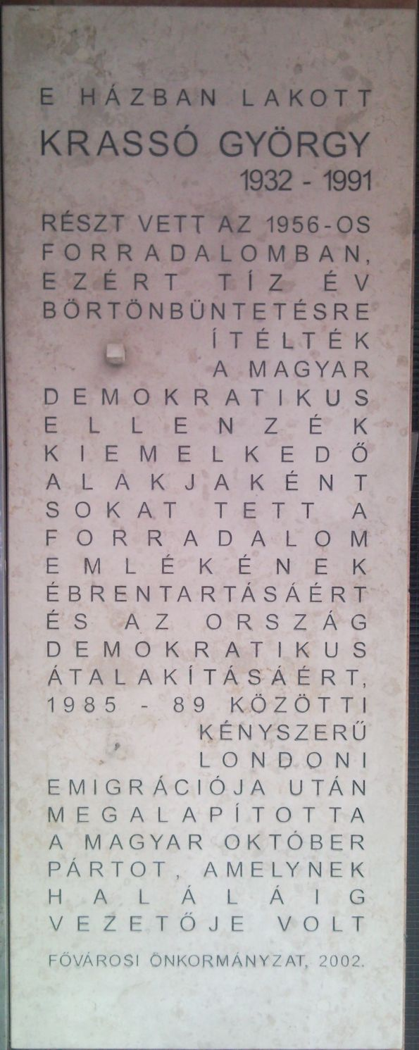 Commemorative plaque of György Krassó in Budapest District I, Fő Street No 37/b